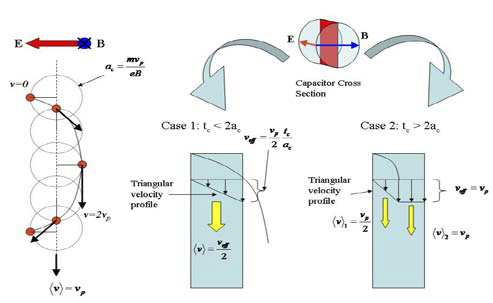 A diagram illustrating the theory of Q thruster operation